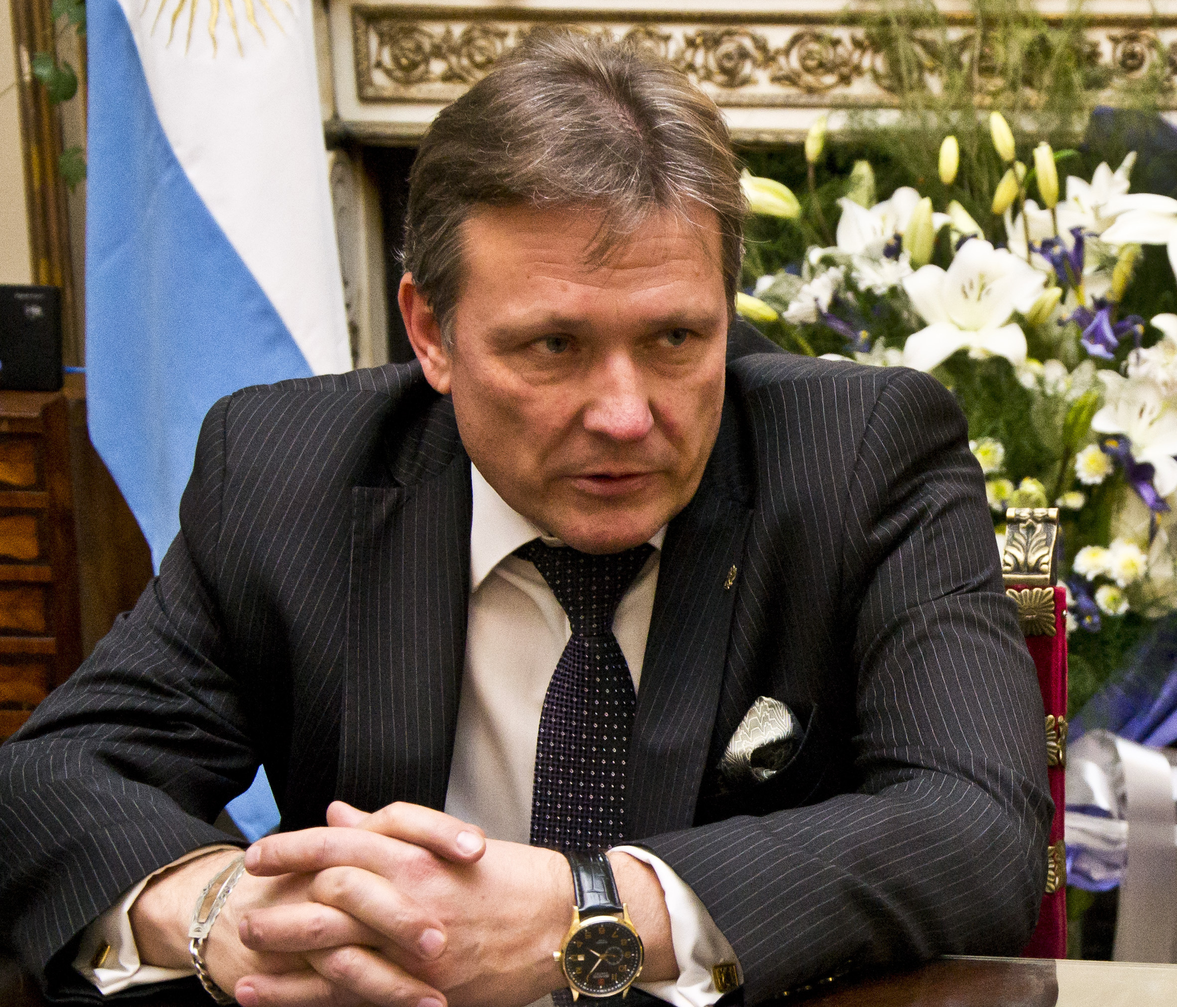 Ambassador of Russia to Argentina Viktor Koronelli in a meeting with Minister of Culture of Argentina Teresa Parodi.